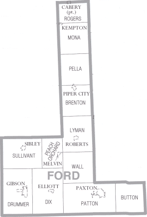 Ford County Illinois